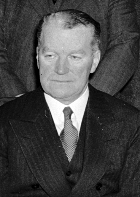 Charles F. McLaughlin, US Representative from Nebraska